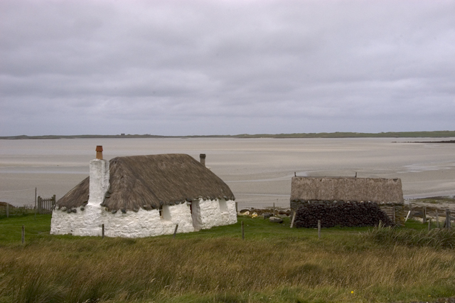 Struan Cottage, Malacleit